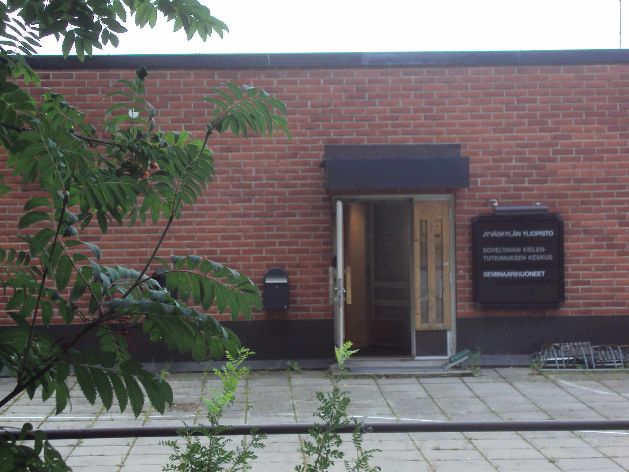 Centre for Applied Language Studies, University of Jyväskylä, Finland